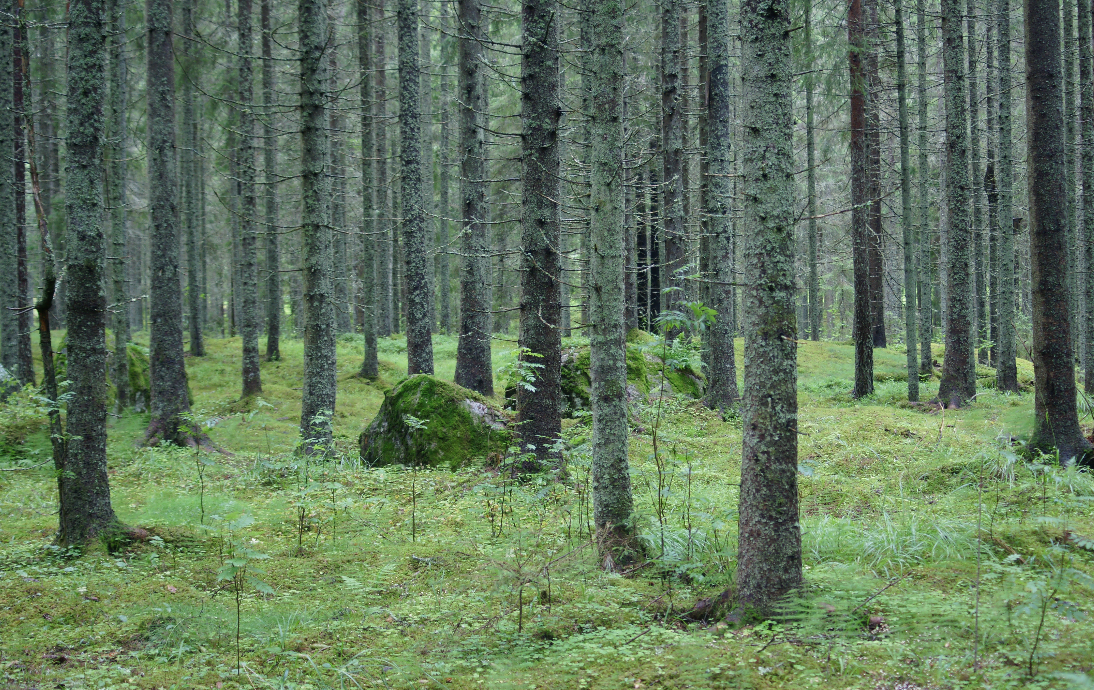 Forest that surrounds the Swedish artist Maria "Vildhjärta" Westerberg's work- and living space.